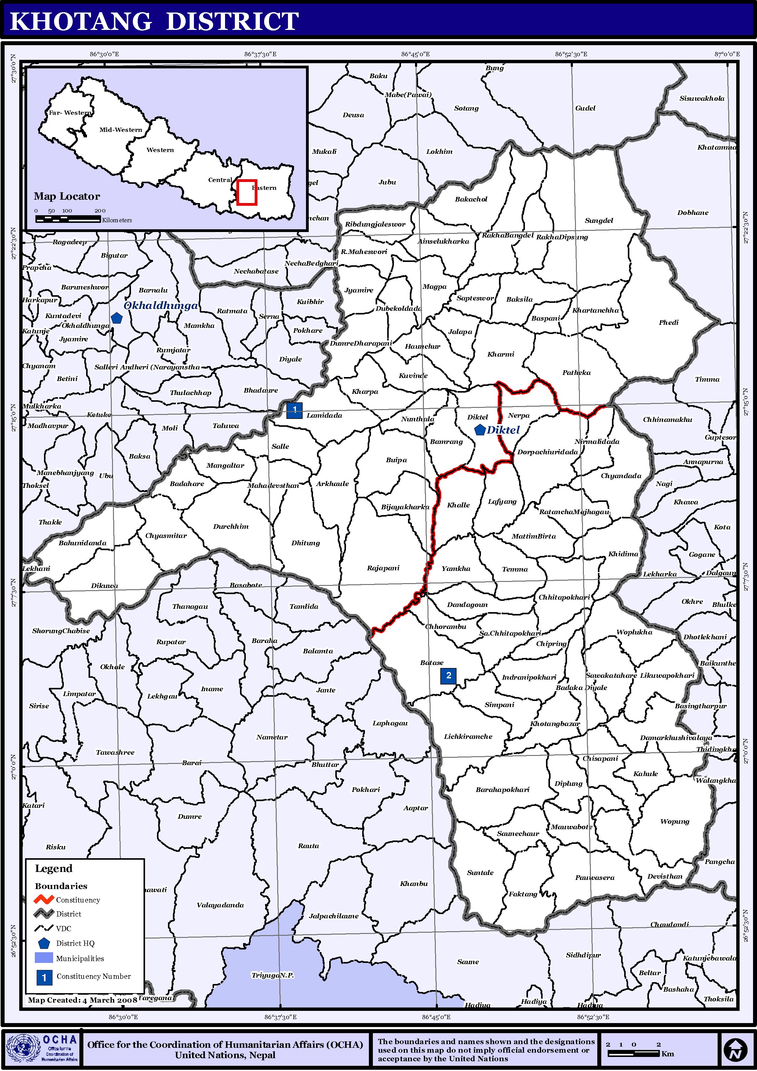 Map displaying Village Development Committees in Khotang District, Nepal